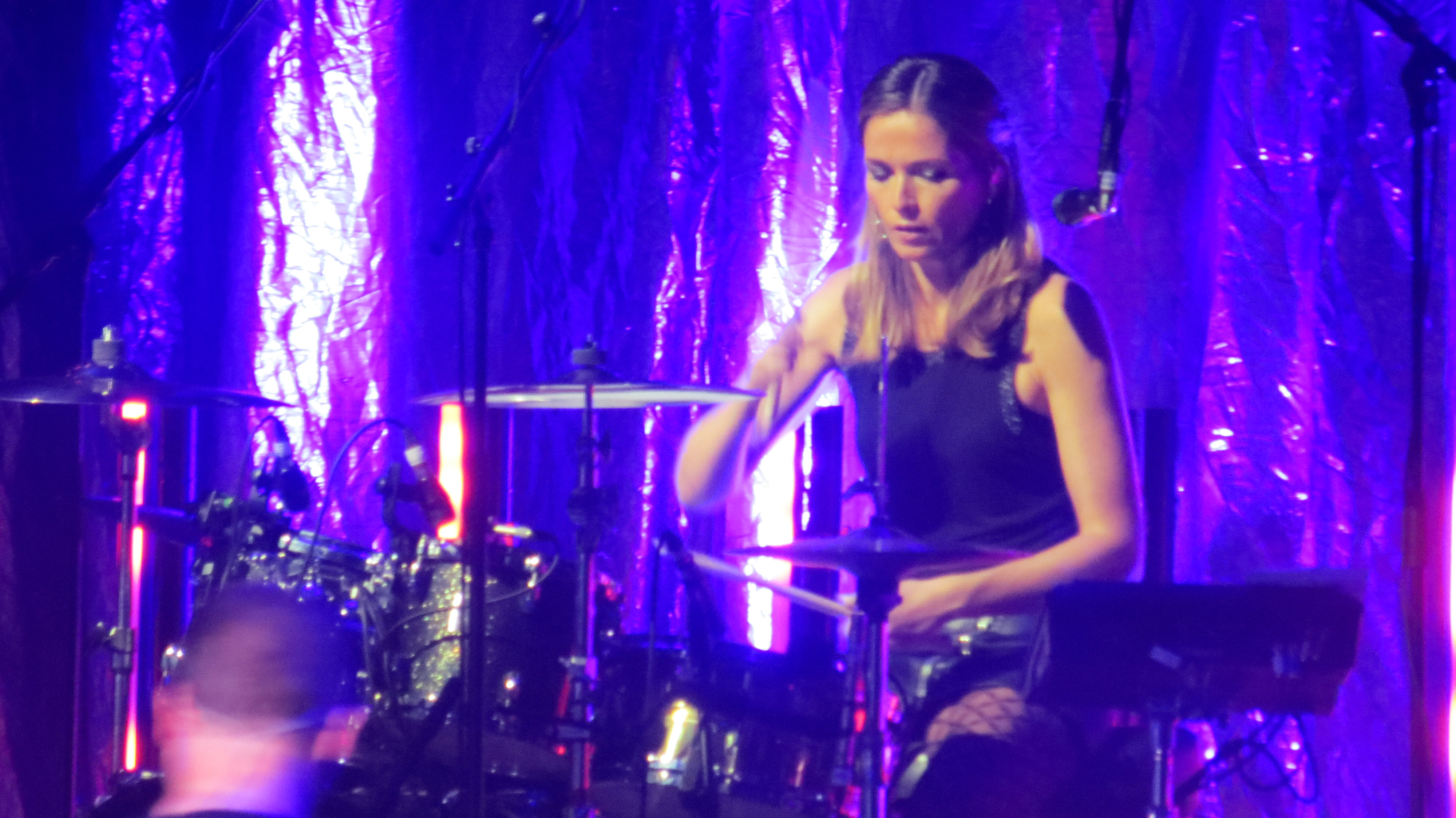 Caroline Corr in Vienna (Stadthalle, 2016)